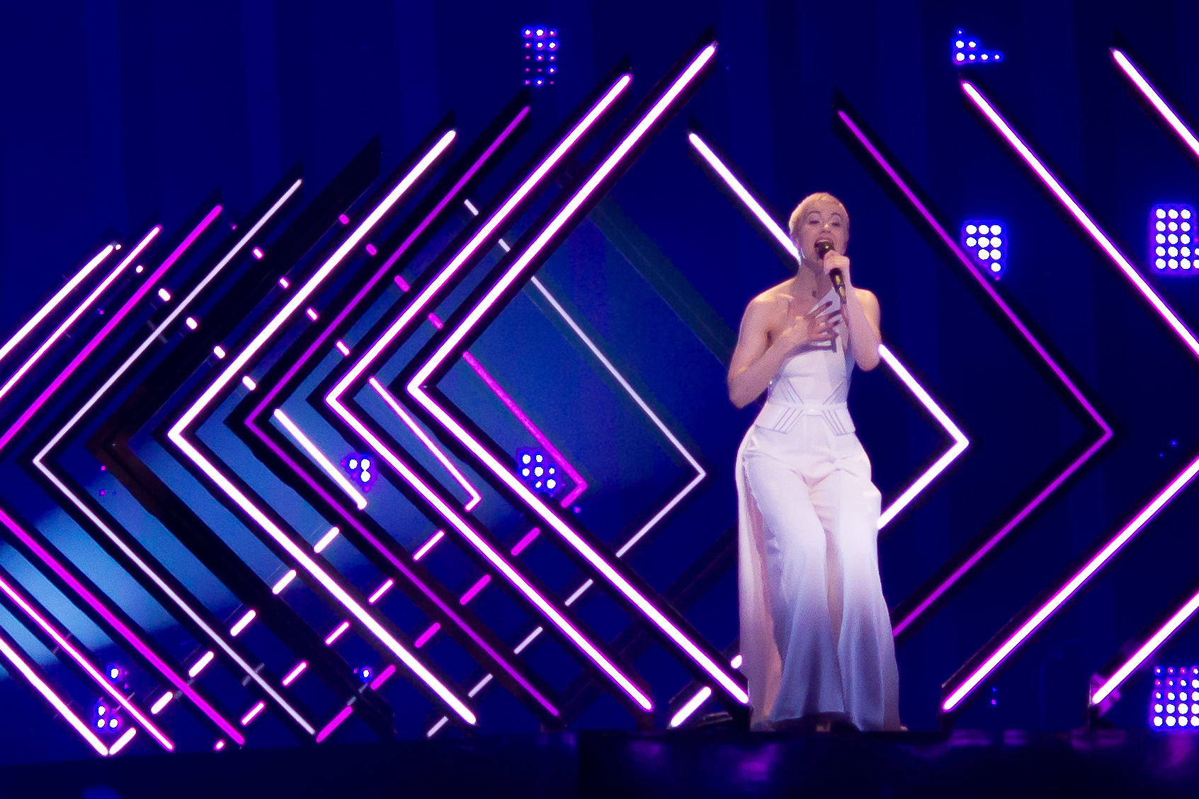 SuRie performing at Eurovision 2018